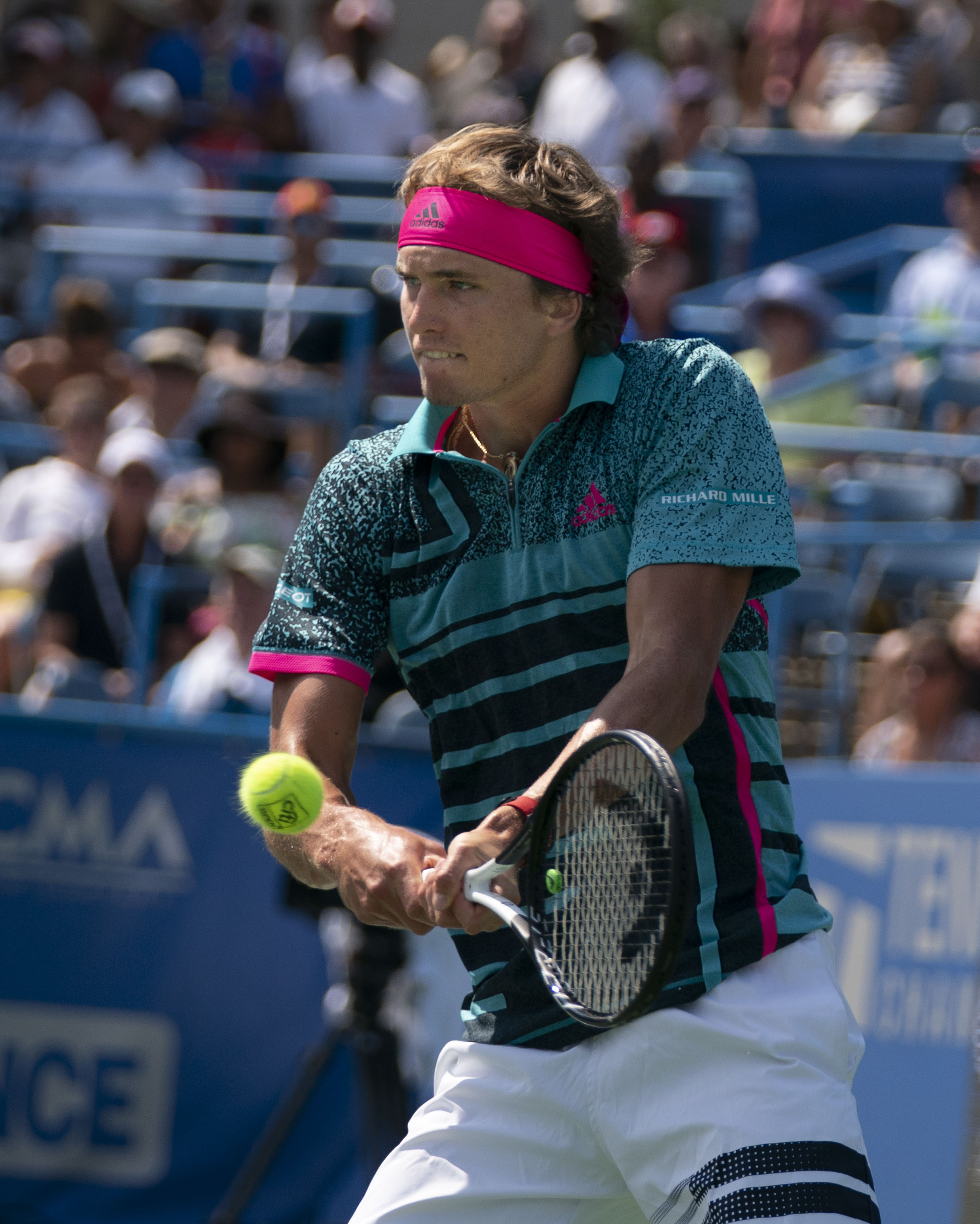 2018 Citi Open Tennis Finals